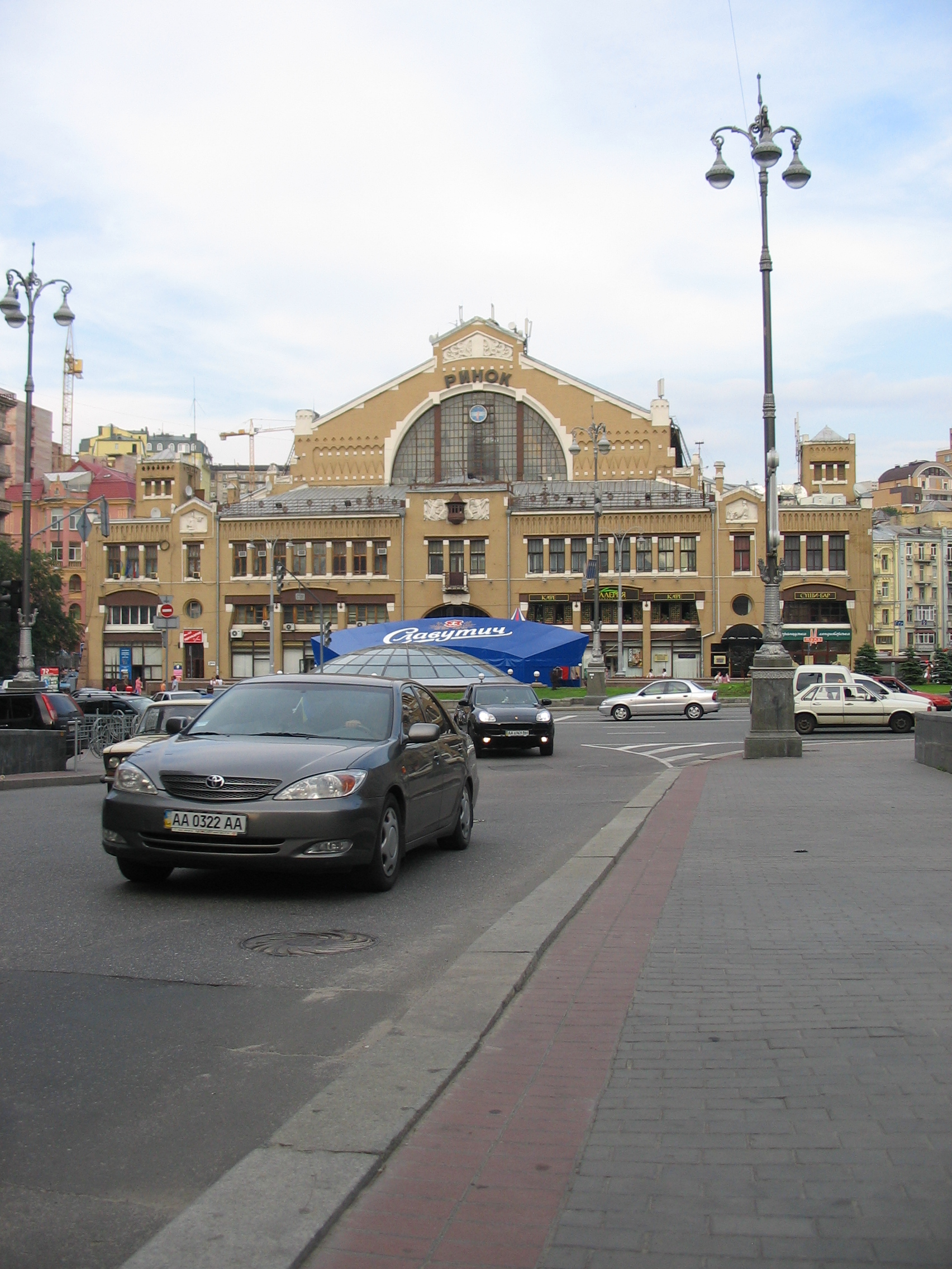 View of the Besarabsky Market from the Khreschatyk street in Kiev, the capital of Ukraine.